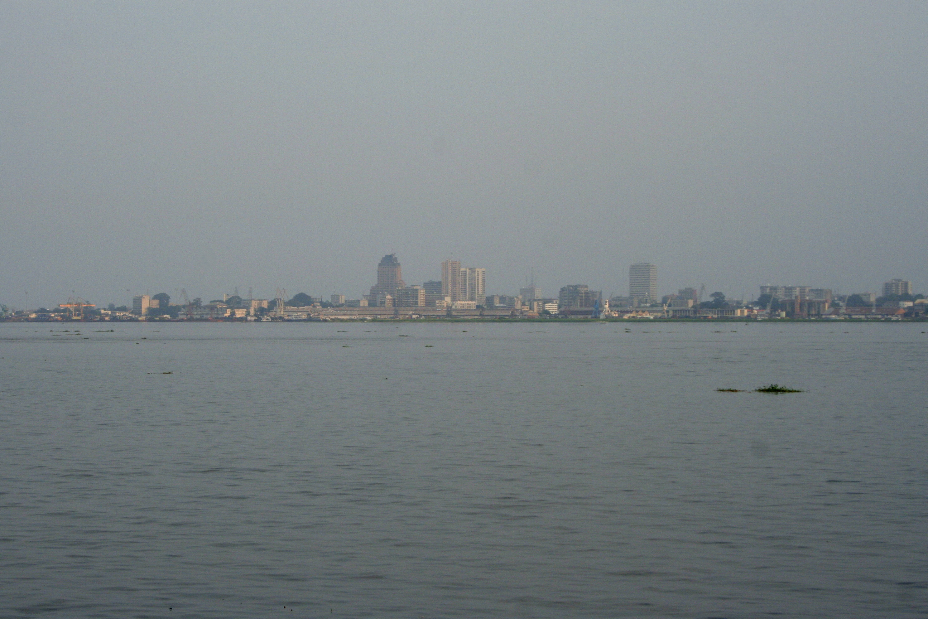 Skyline of La Gombe municipality of Kinshasa — seen from Brazzaville, across the Pool Malebo of the Congo River.